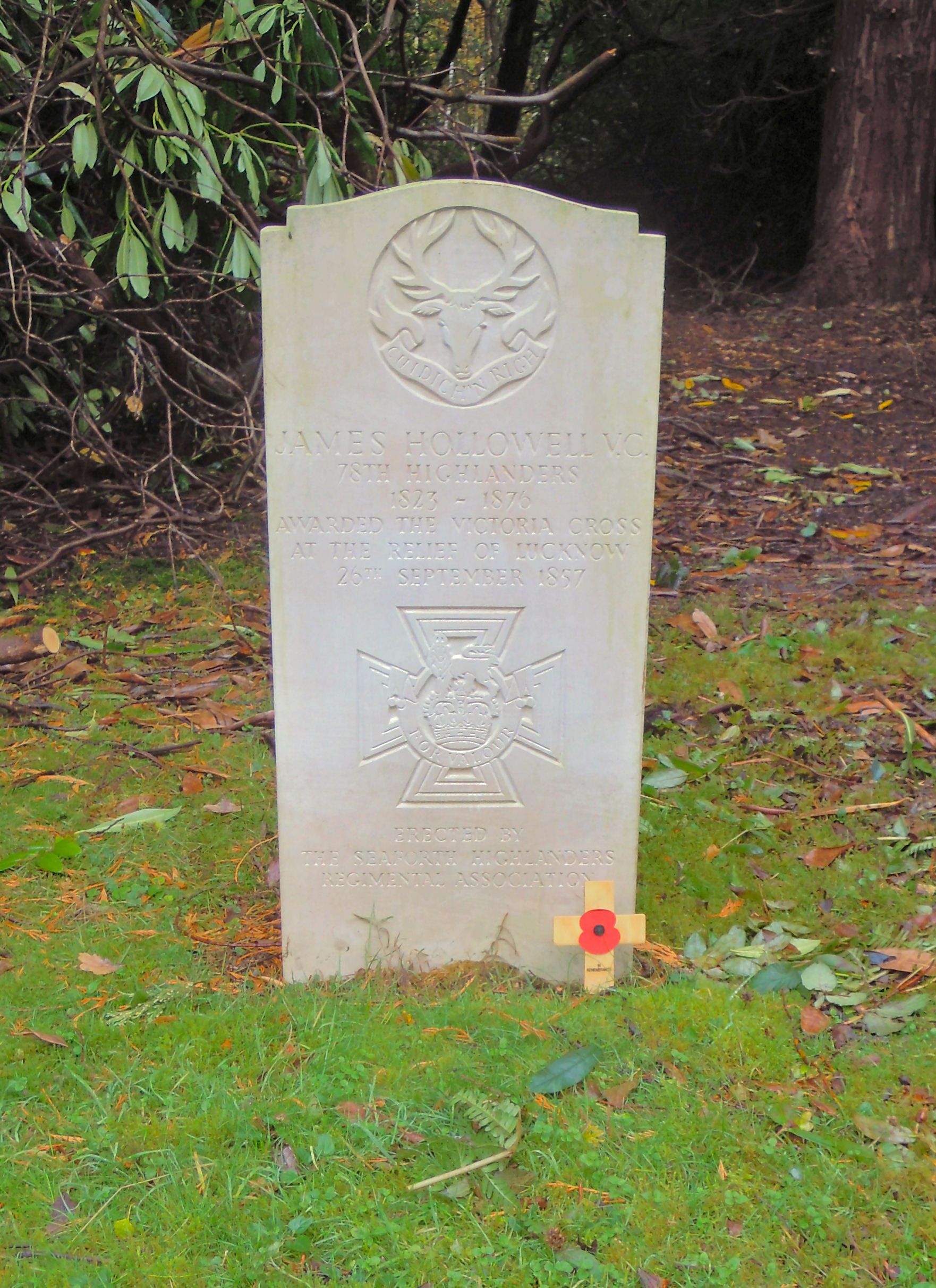 Headstone of James Hollowell, VC, in the Corps of Commissionaires section of Brookwood Cemetery, Brookwood, Surrey